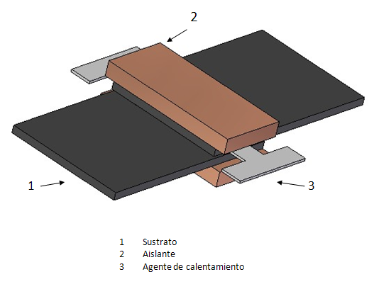 Esquema de soldadura por resistencia de termoplásticos